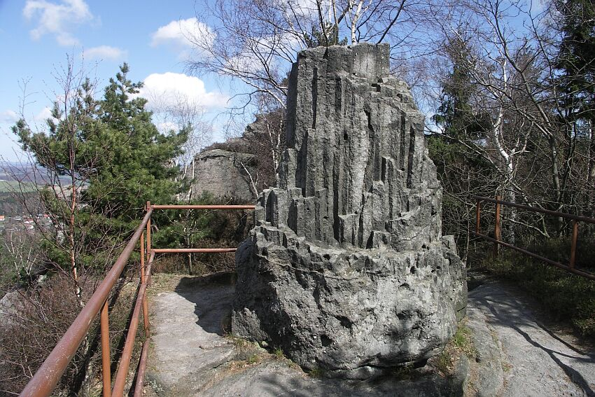 Kleine Orgel, rock formation, sandstone, Saxony, Germany